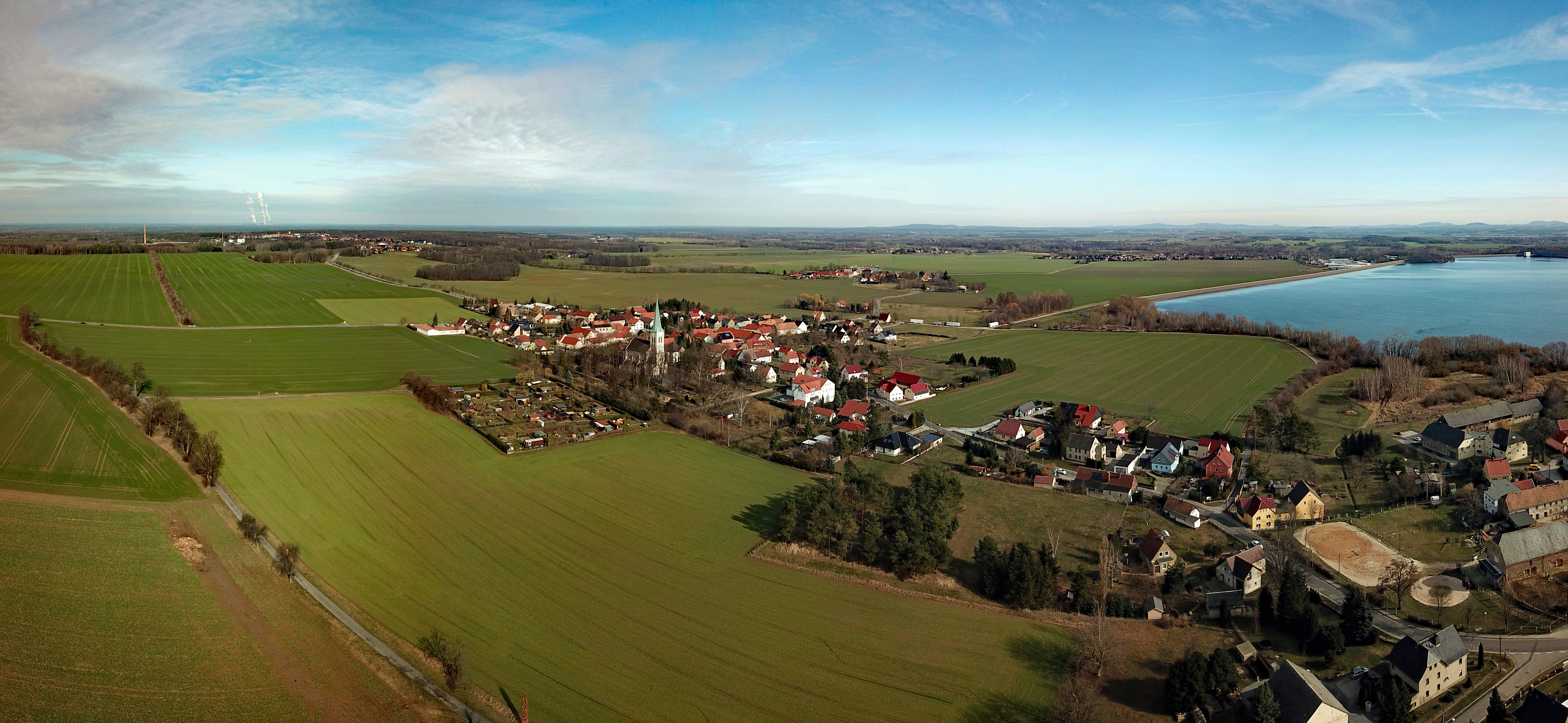 Quatitz, Großdubrau, Saxony, Germany Hornjoserbsce: Powětrowy wobraz Chwaćic